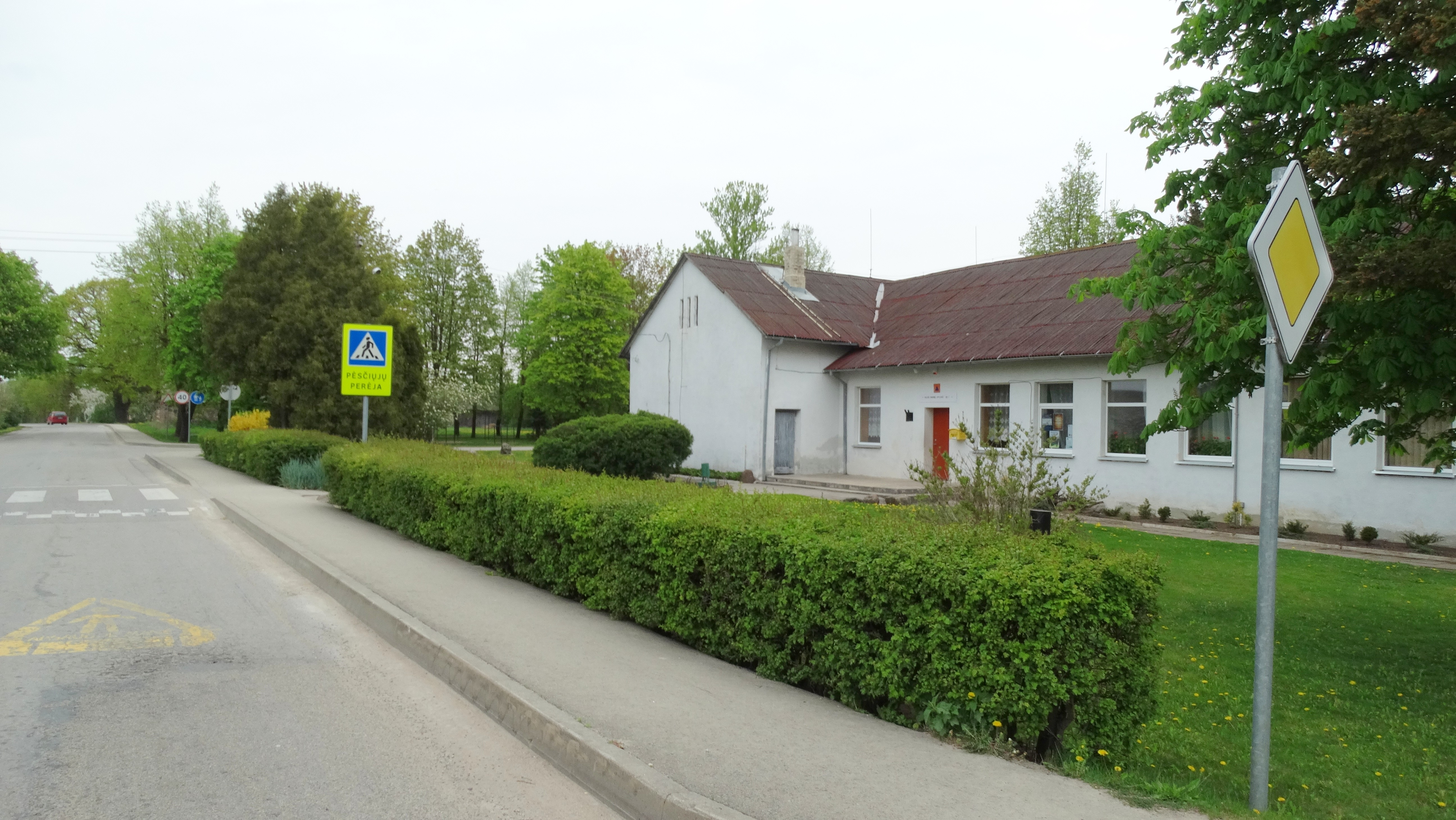 Community house, Balsiai, Pakruojis district, Lithuania